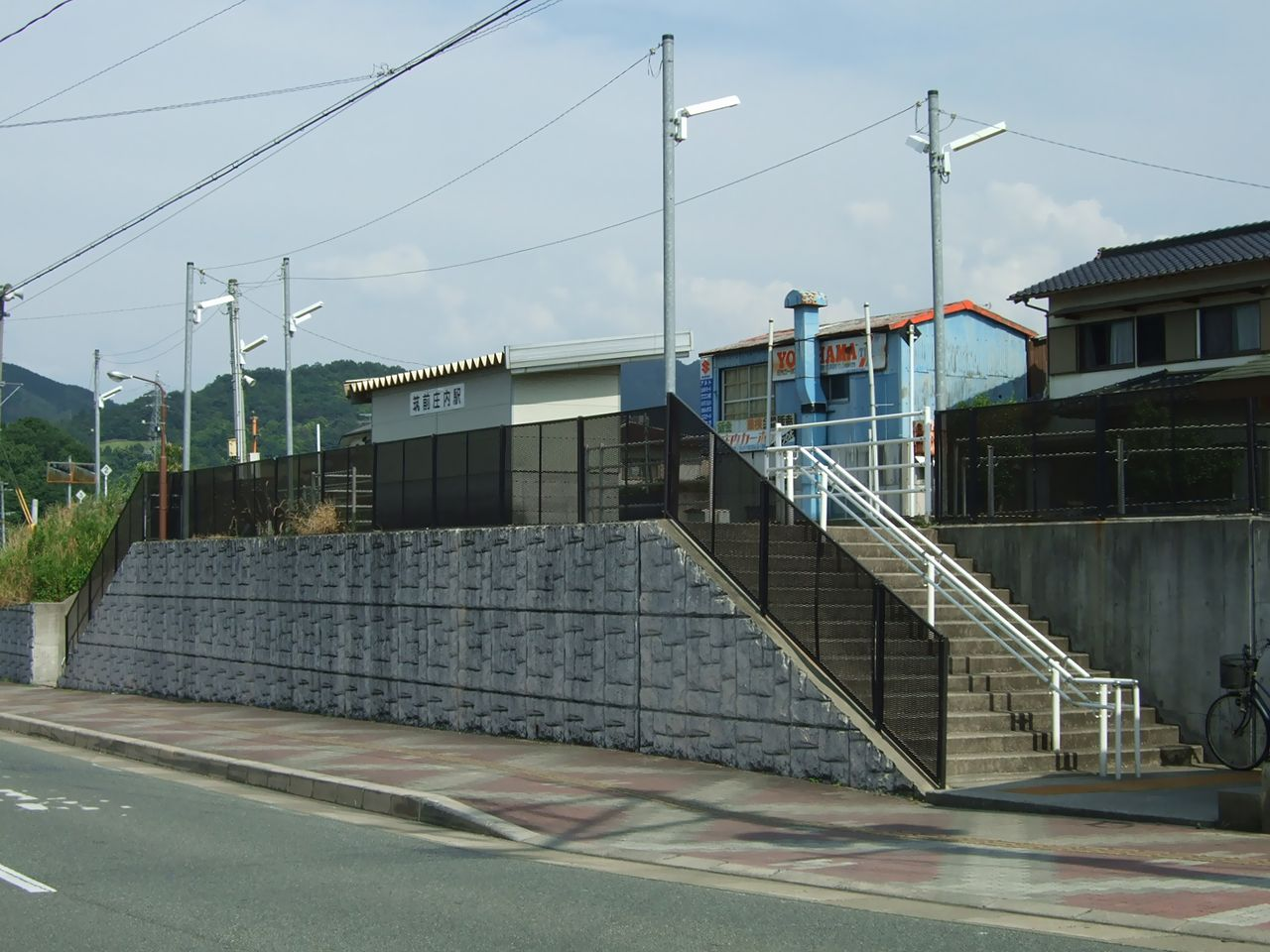 Chikuzen-Shonai Station, Gotoji Line, Kyushu Railway Company.